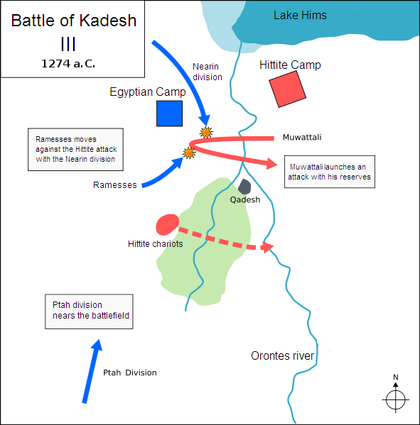 Battle of Qadesh - Third phase (English)